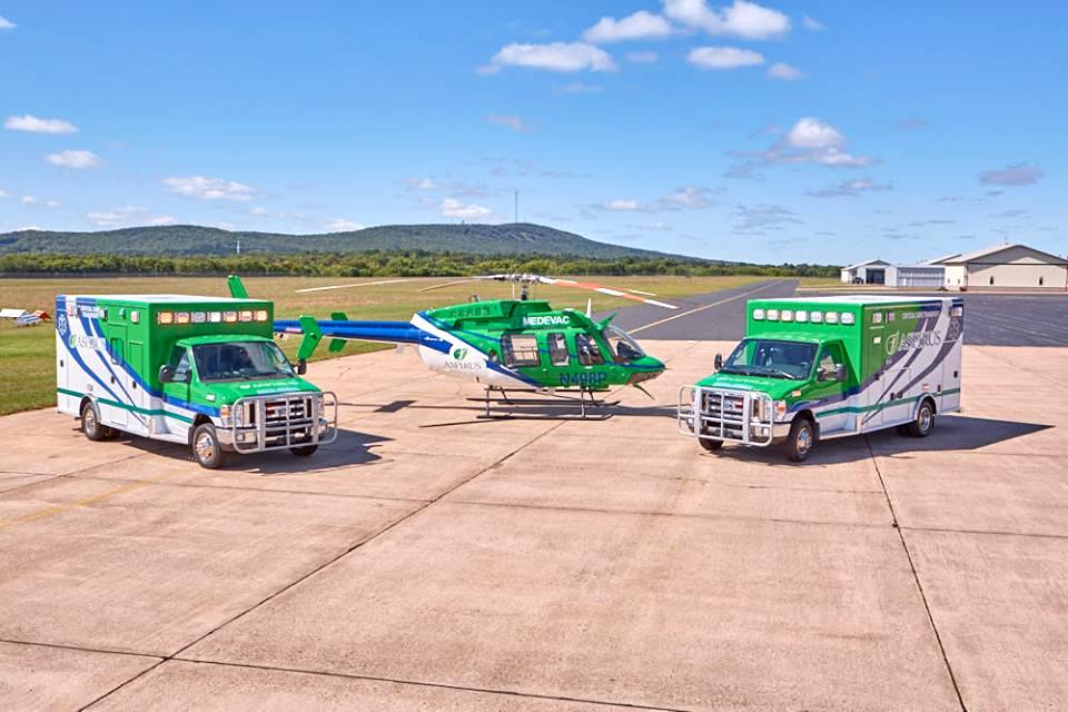 D1